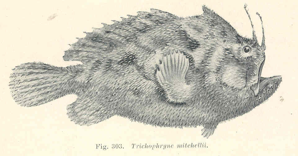 Trichophryne mitchellii Subject: Antennariidae, Anglerfishes, Trichophryne Tag: Fish